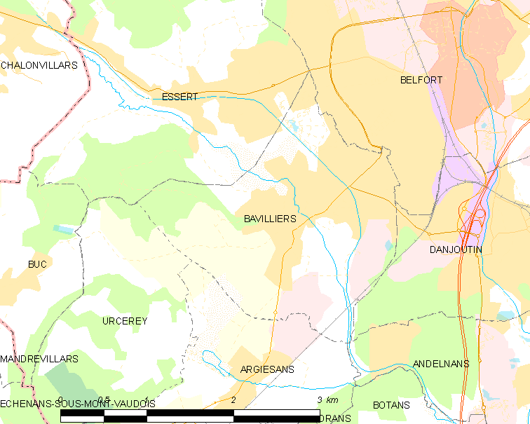 Map of French municipality Bavilliers